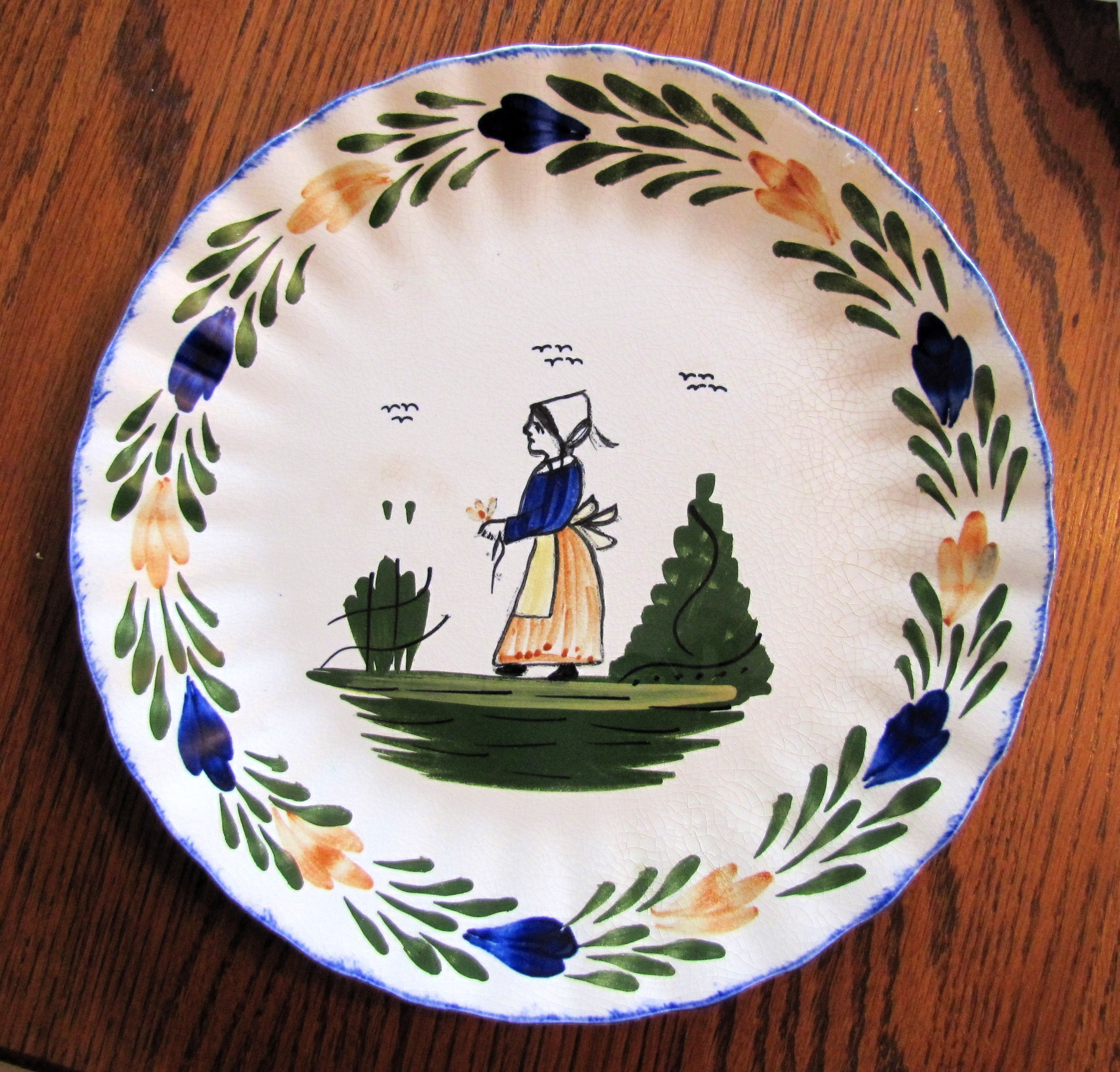 Blue Ridge china piece, manufactured circa 1932-1945.